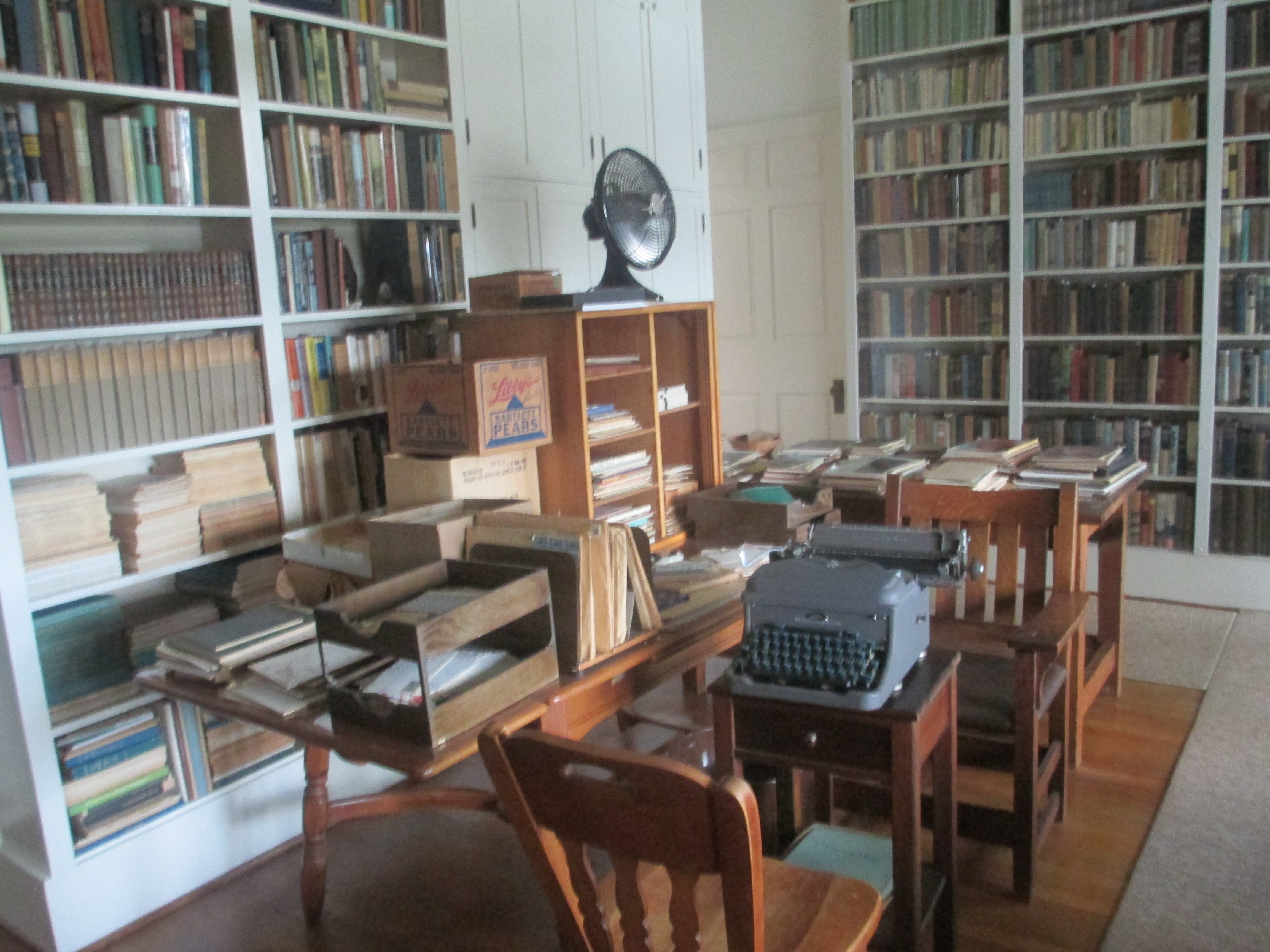 I took photo with Canon camera of Sandburg study.